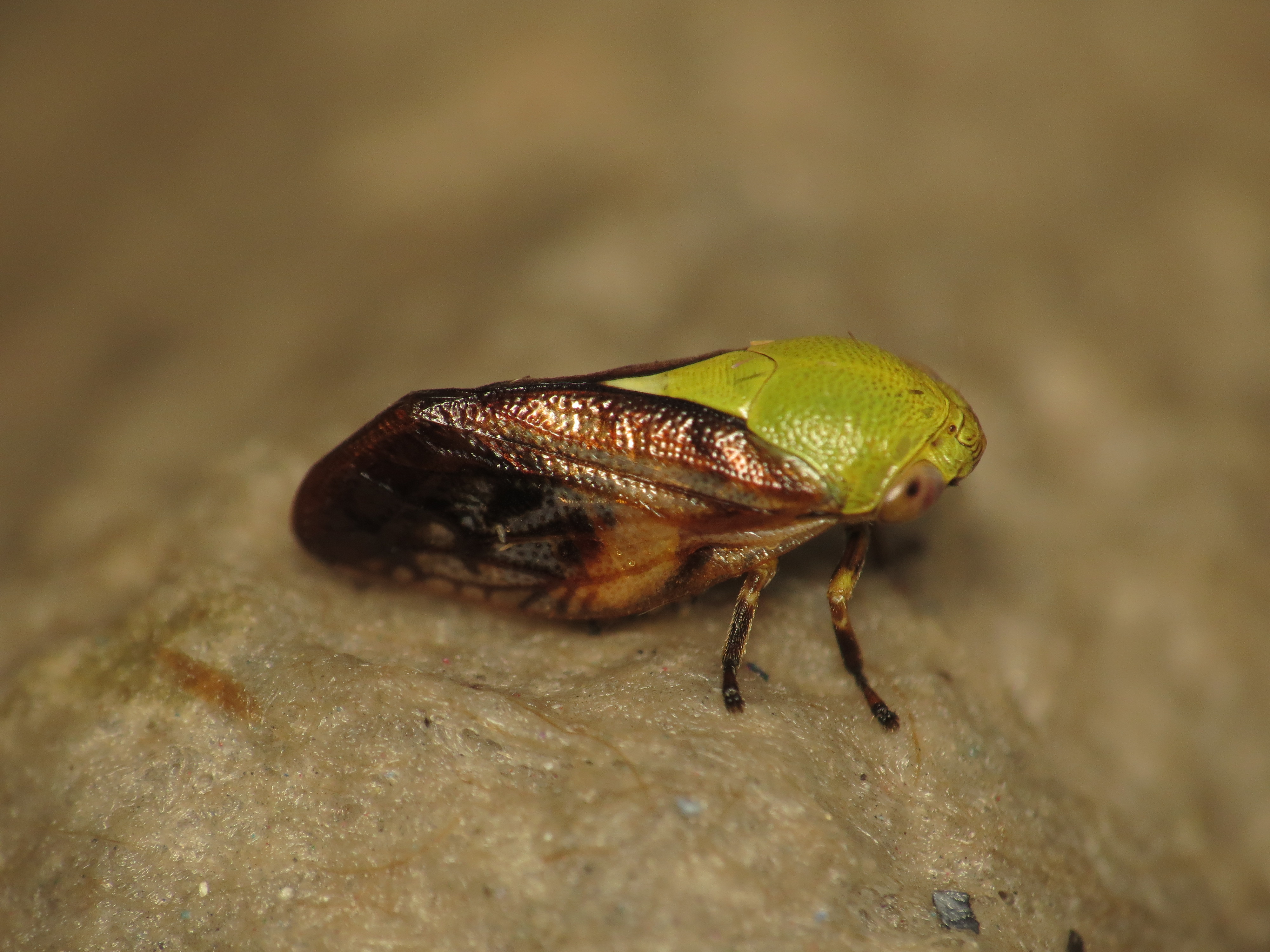 Chaetophyes compacta (Walker, 1851), female, to actinic light, O'Connor, ACT, 4/5 December 2014